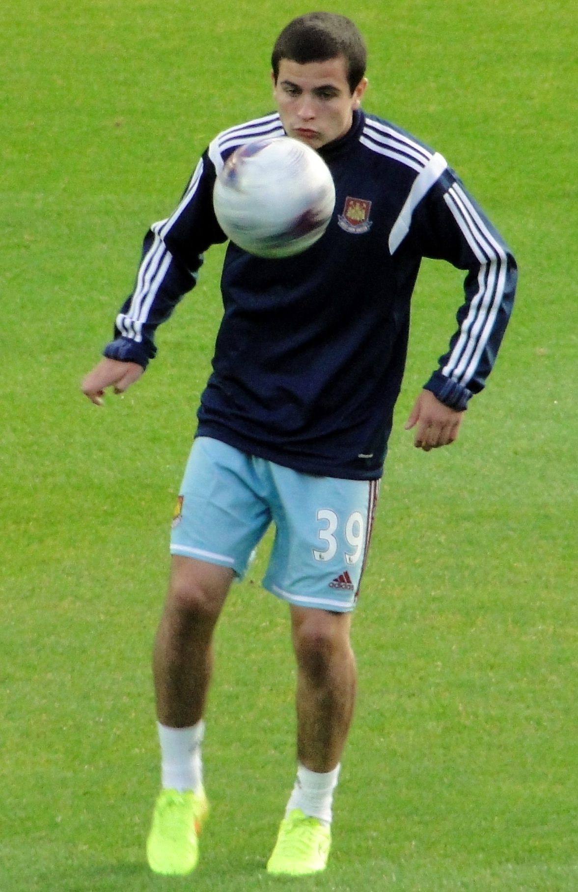 West Ham United player Josh Cullen warming-up before their League Cup against Sheffield United at the Boleyn Ground.